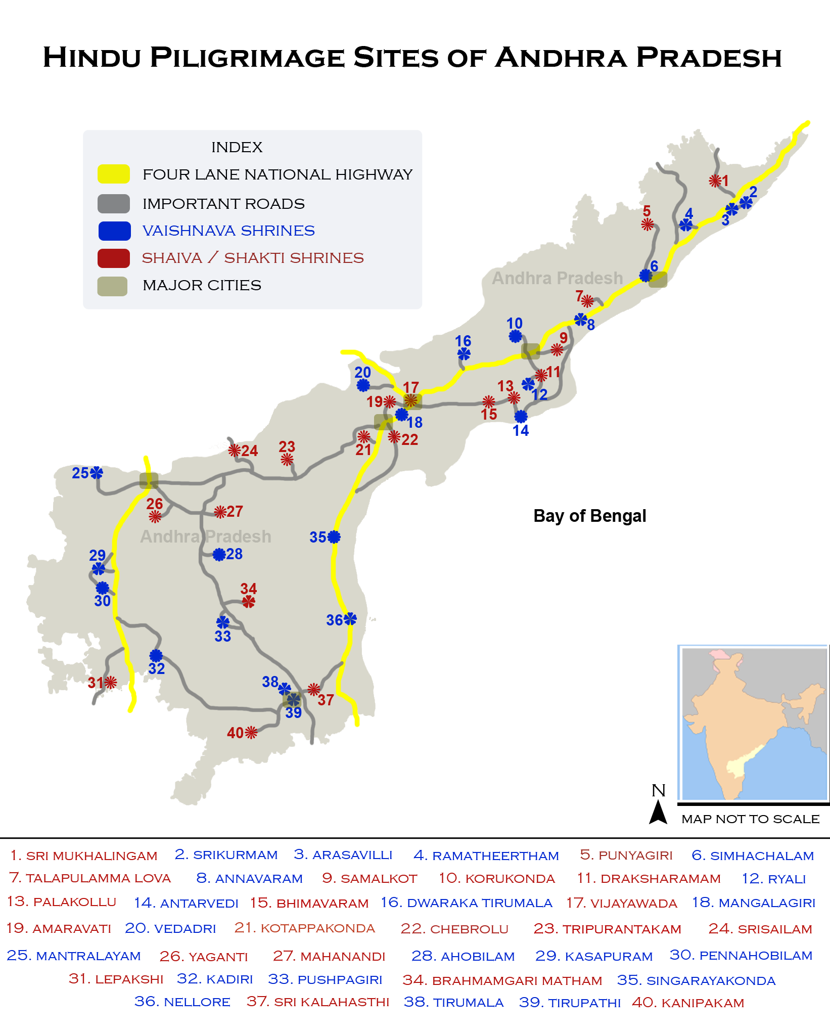 Hindu Pilgrimage sites map of Andhra Pradesh